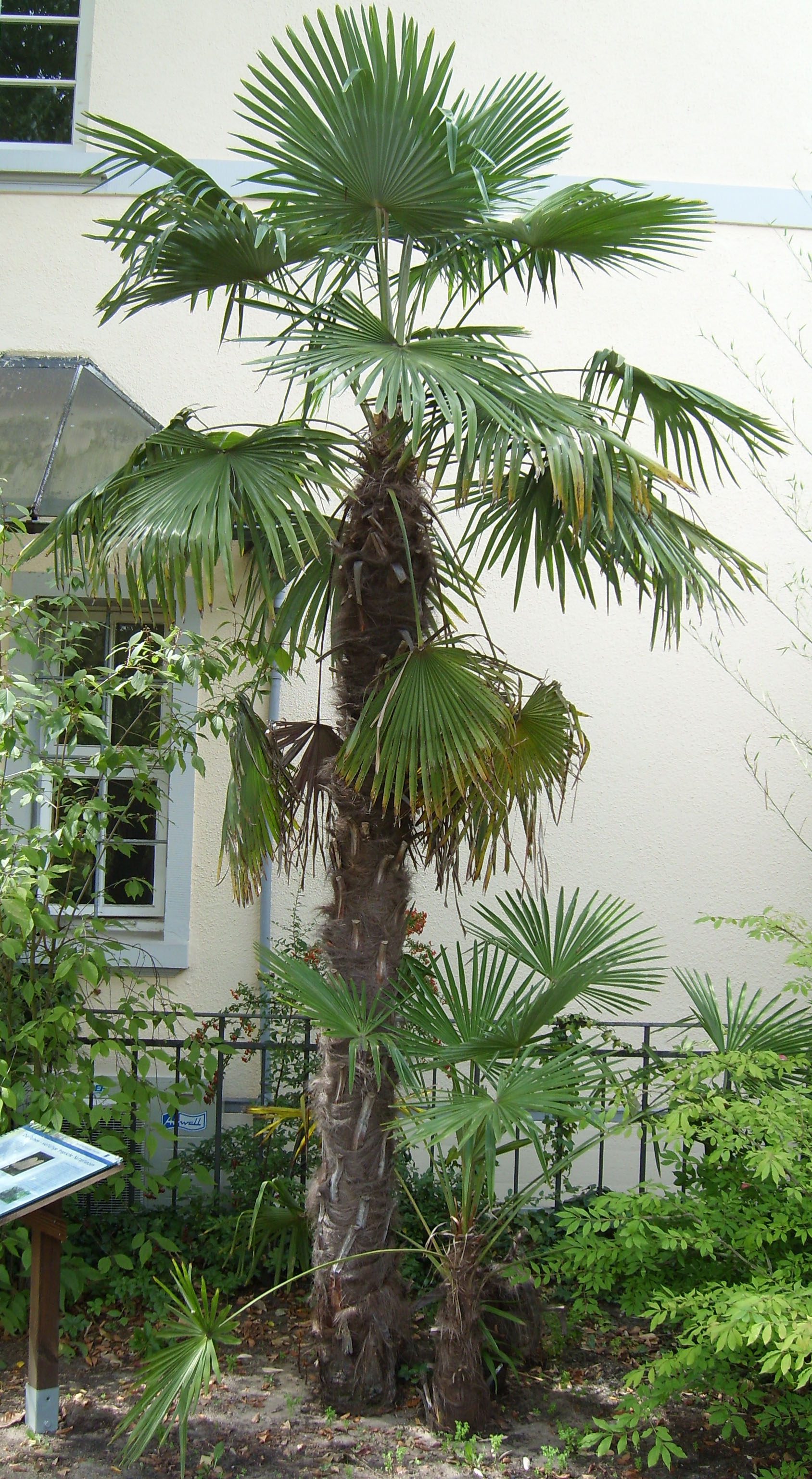 Trachycarpus fortunei